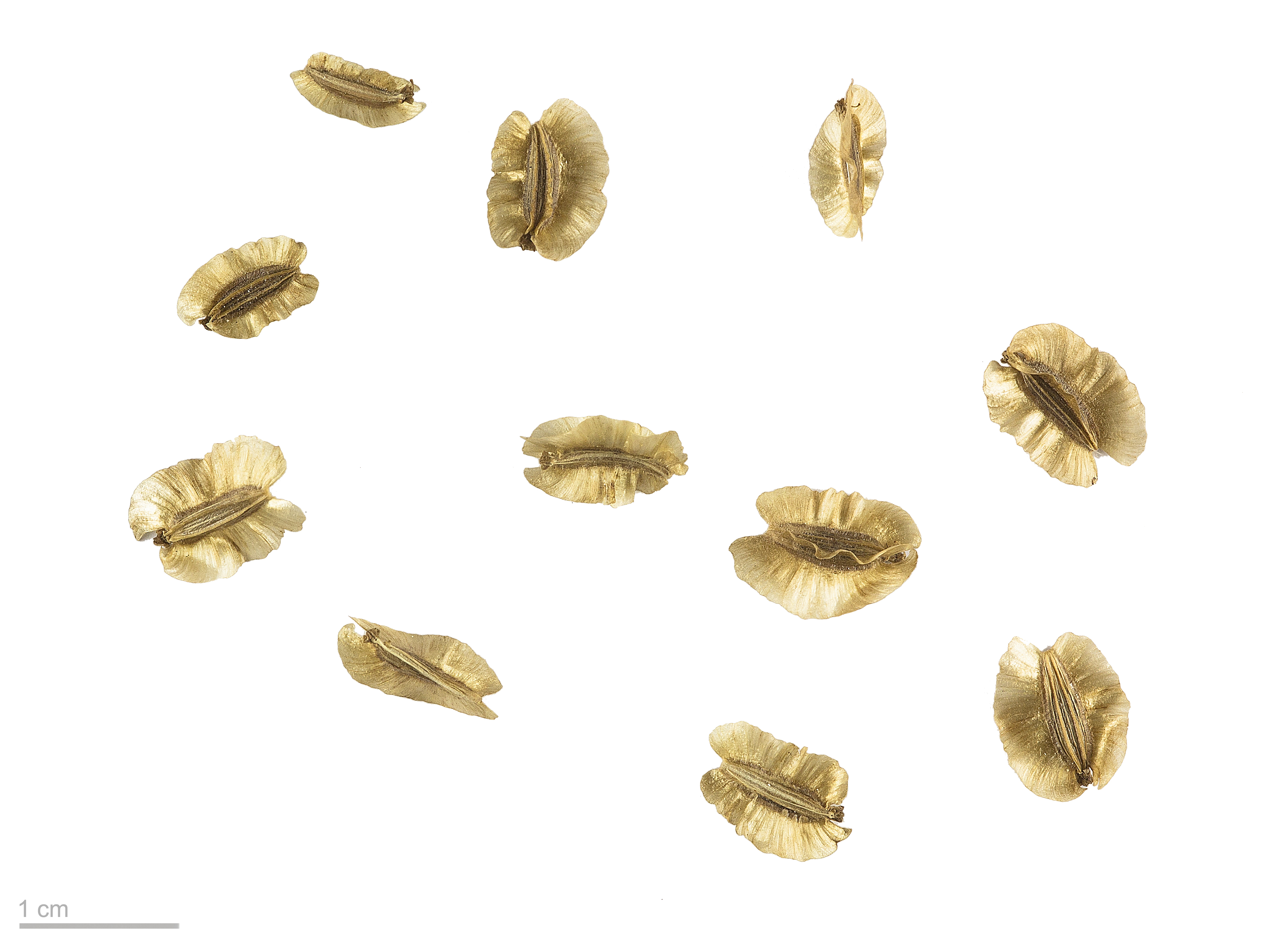 villous deadly carrot, fruits and seeds